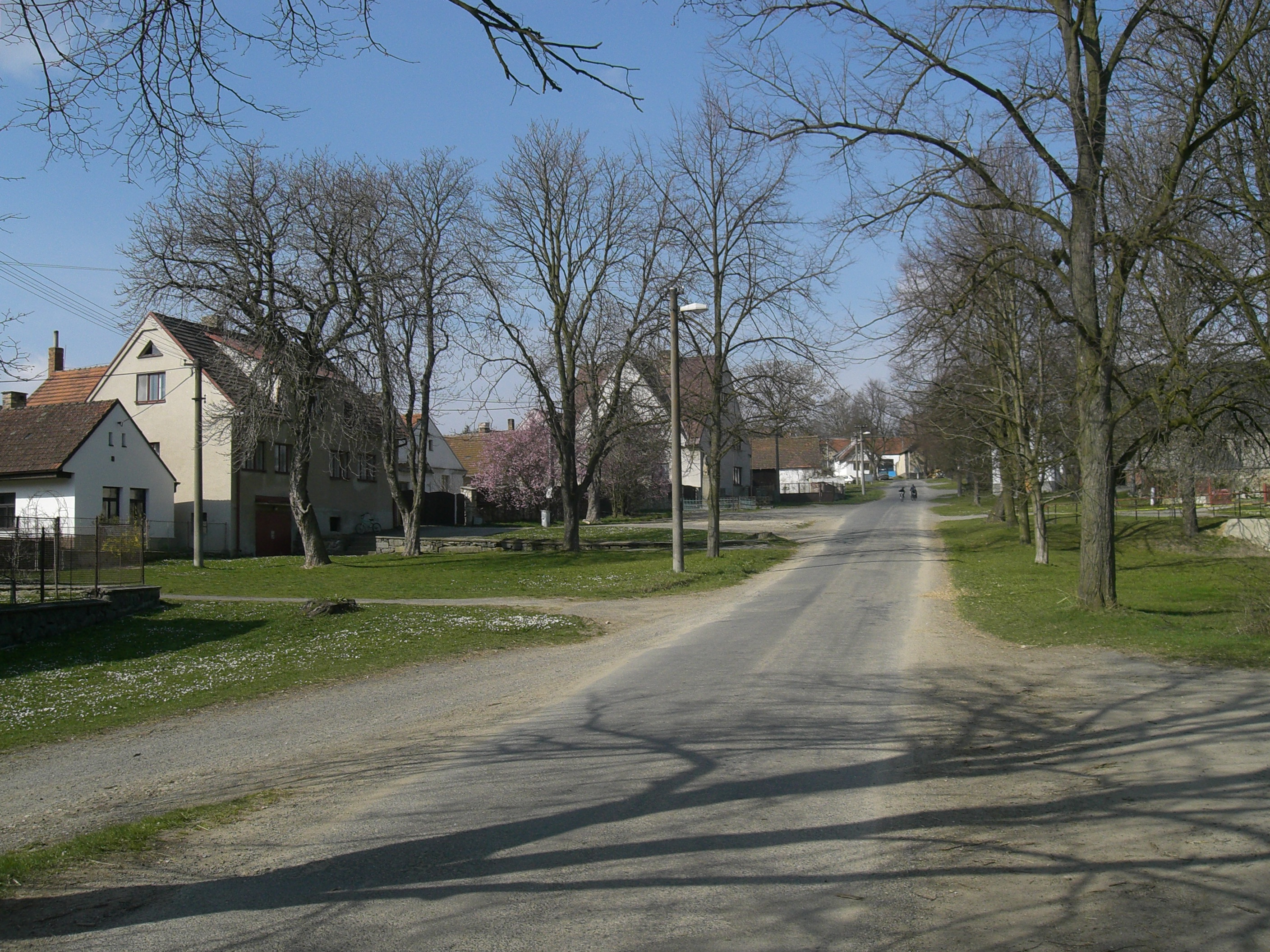 Přeborov village in the Písek district, Czech Republic